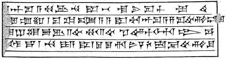 Stone Tablet of the time of Simmash-Shipak (No. 90937)